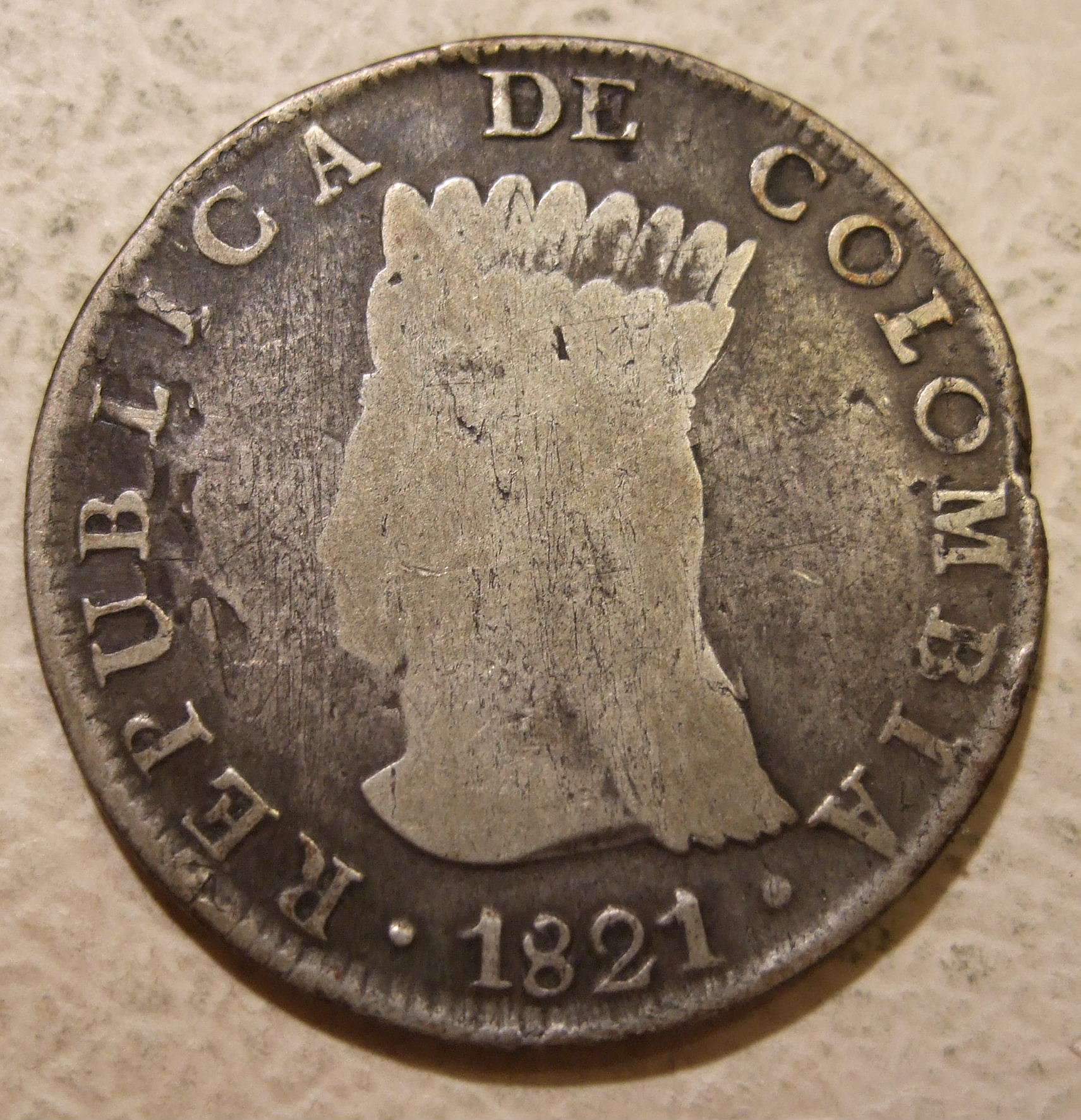 In 1821 Colombia was by then a republic and issued it's own "piece of eight" distictly different from the Spanish version of Spain's Ferdinand VII's issues of the same year.